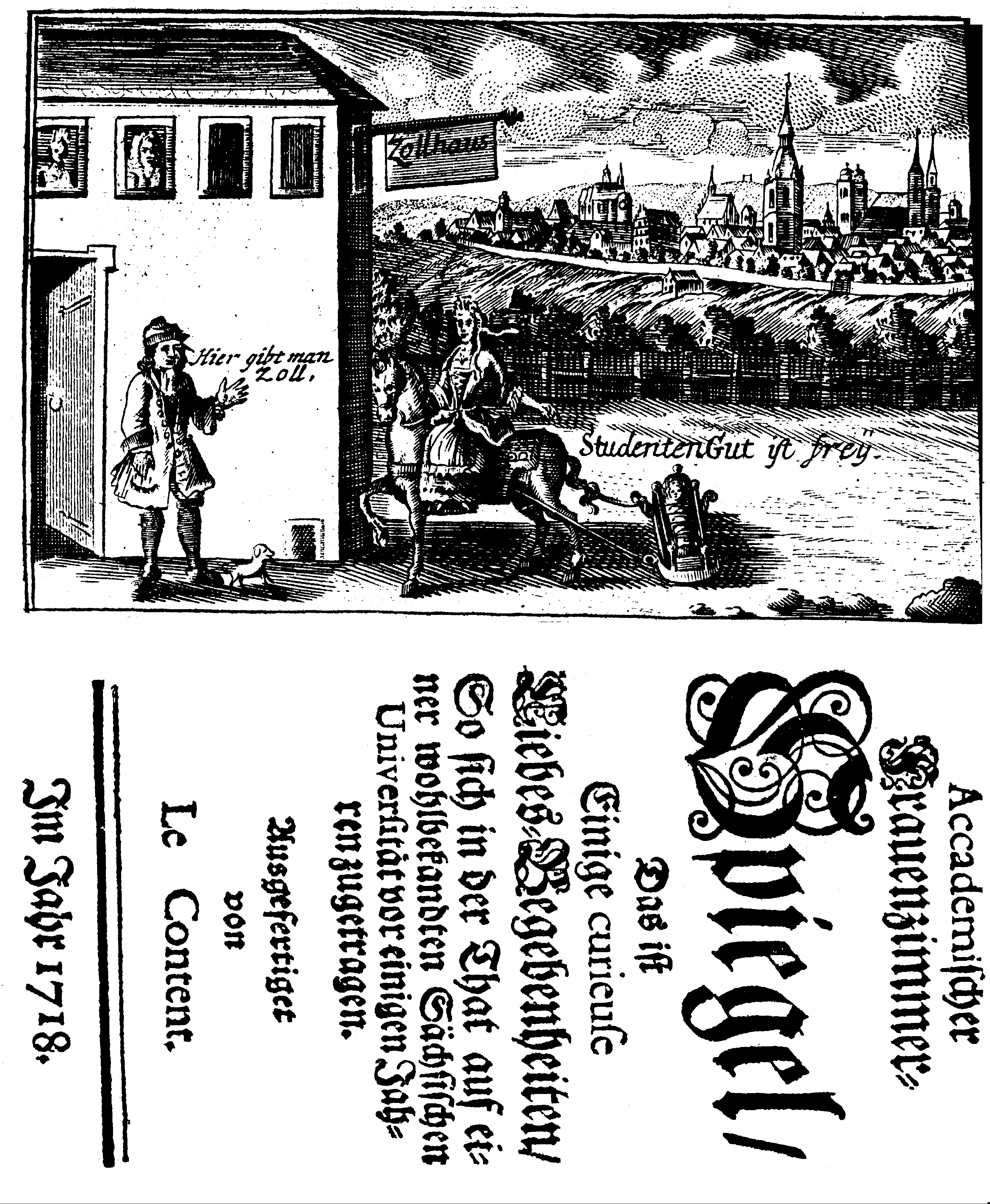 Title page and Frontispiece of Le Content, Accademischer Frauenzimmer-Spiegel (1718)